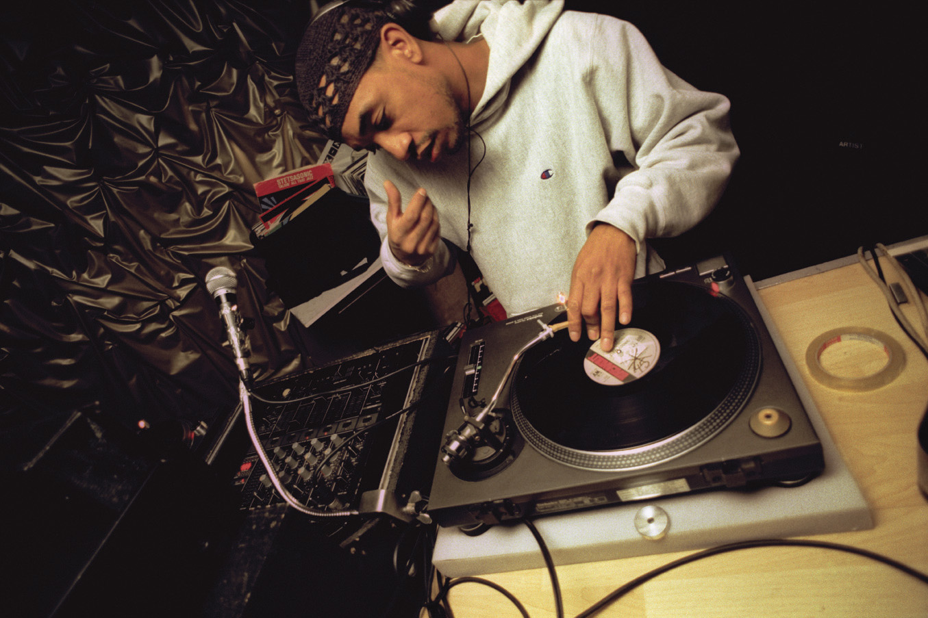 DJ Prince Paul in Cologne/Germany 2000